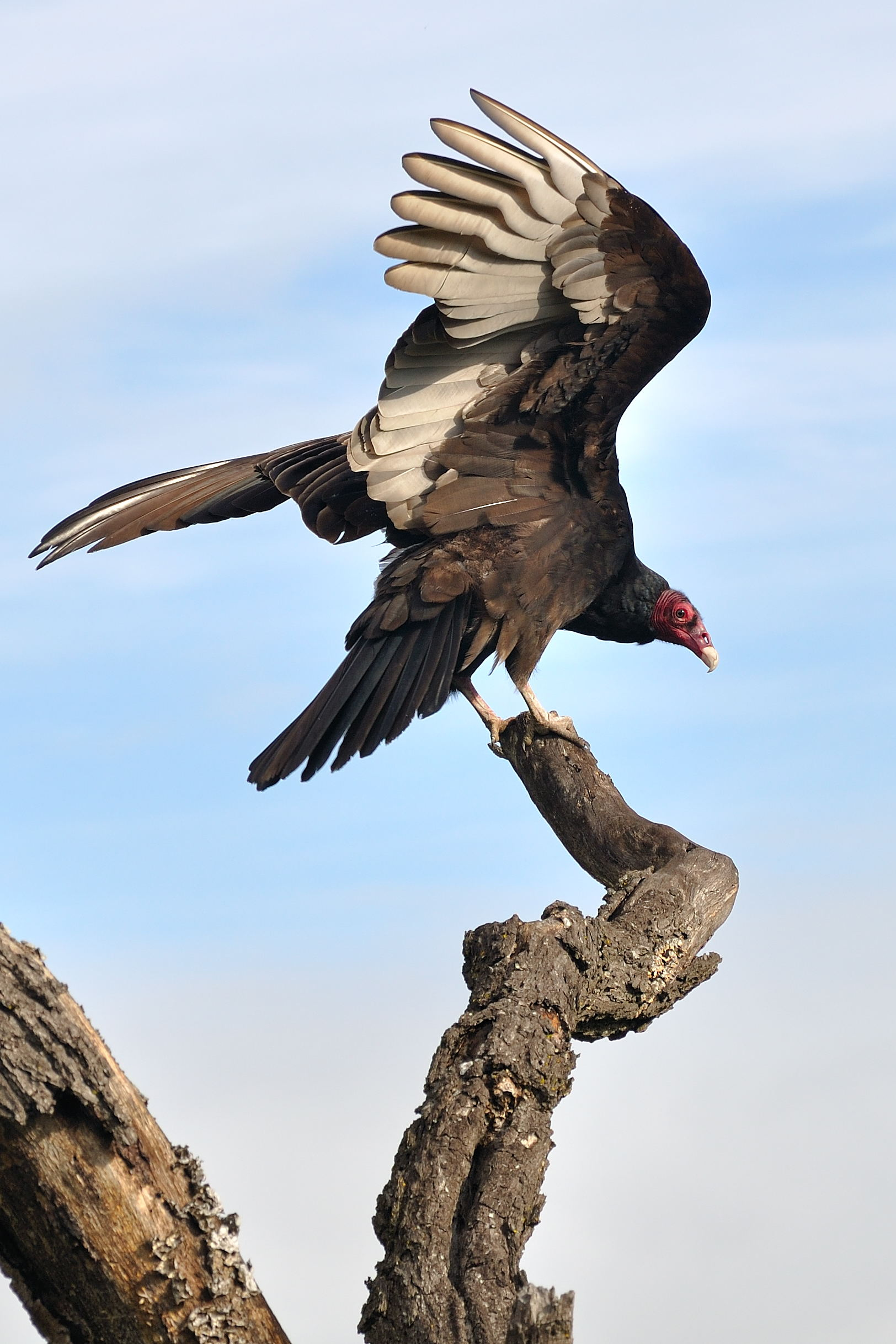 An adult Turkey Vulture at Santa Teresa County Park, San Jose, California, USA. It is landing on a dead tree branch.